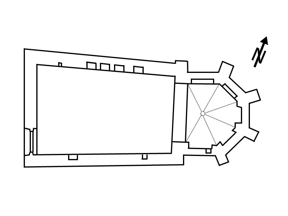 ground plan Hospitalkapelle St. Jakobus Oberlahnstein - selfmade